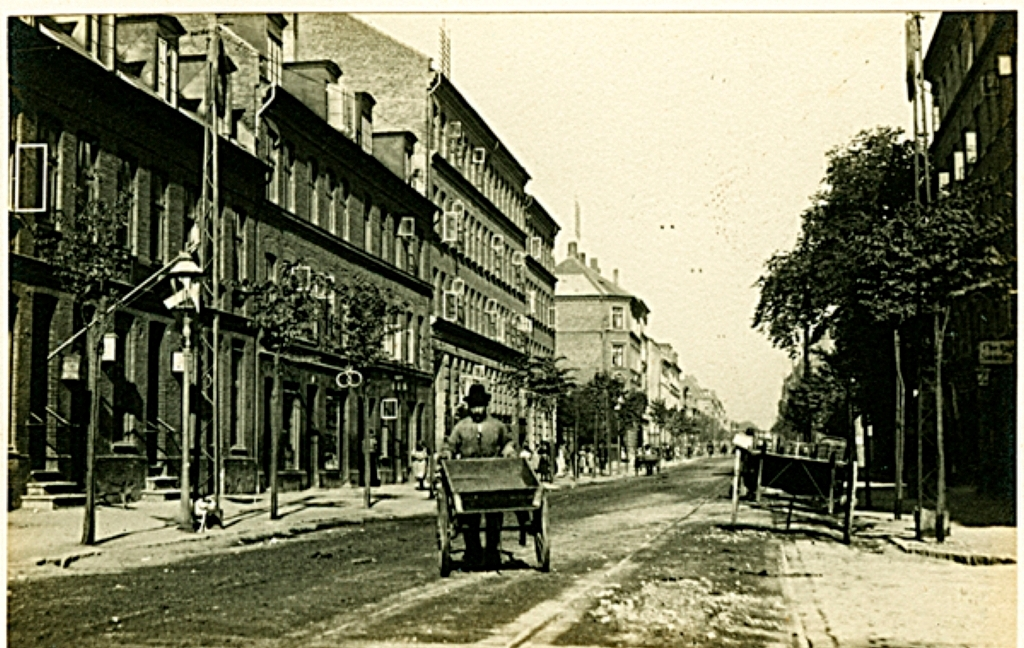 Godthåbsvej in Frederiksberg, Copenhagen, Denmark. Danish " Godthåbsvej, set mod vest. Set fra krydset ved Falkoner Allé. Den nærmeste ejendom til venstre er nr. 5. Derpå følger 7, 11A-C og 13. ".